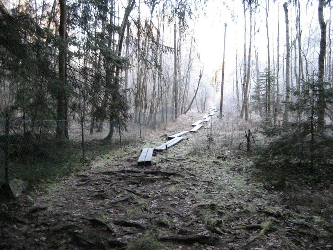 The swampy Glömsta area, outside of Stockholm